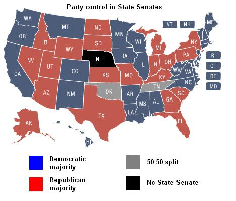 Party control in State Senates in the U.S.